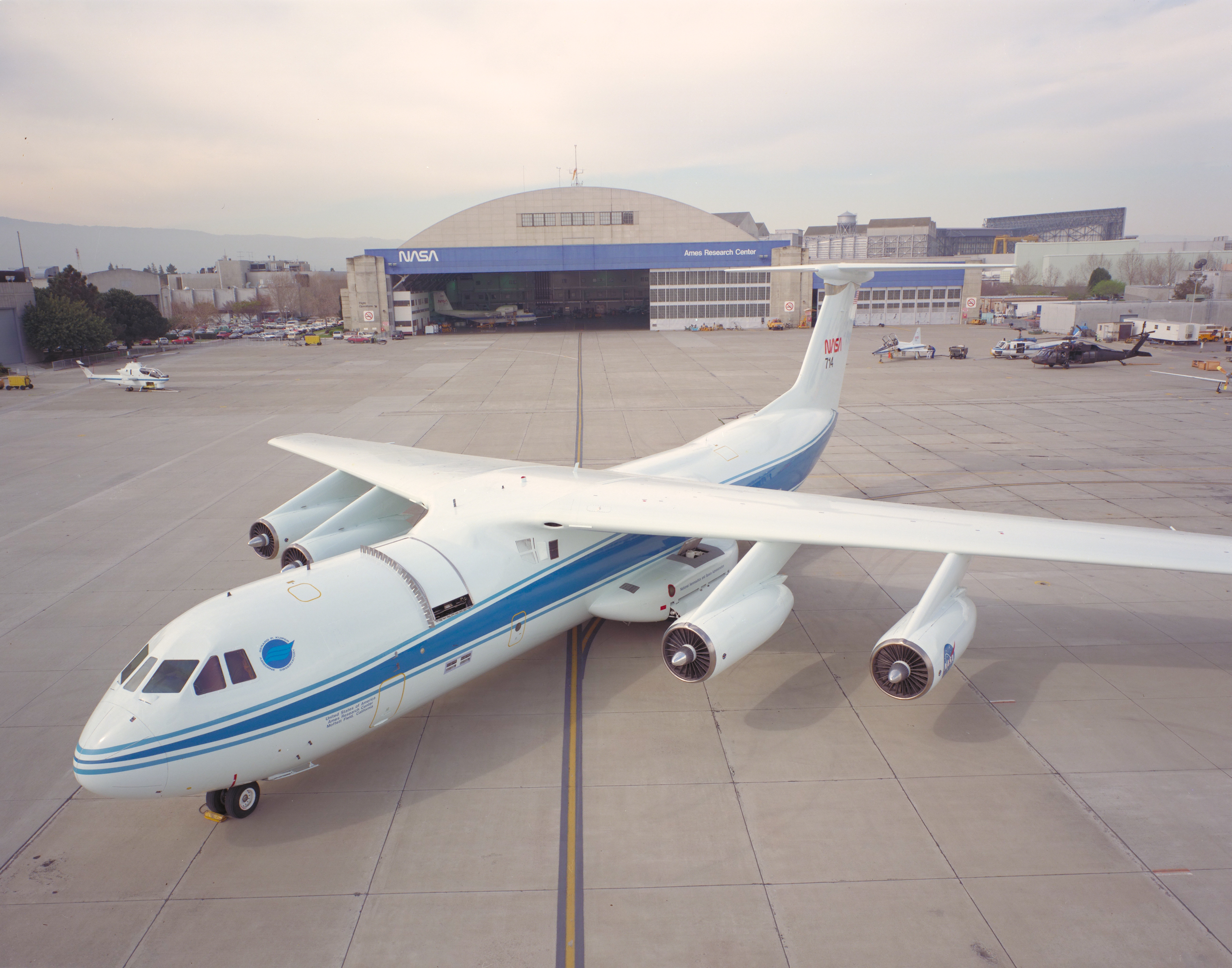 The Kuiper Airborne Observatory, NASA-714, parked on ramp at the AMES Research Center